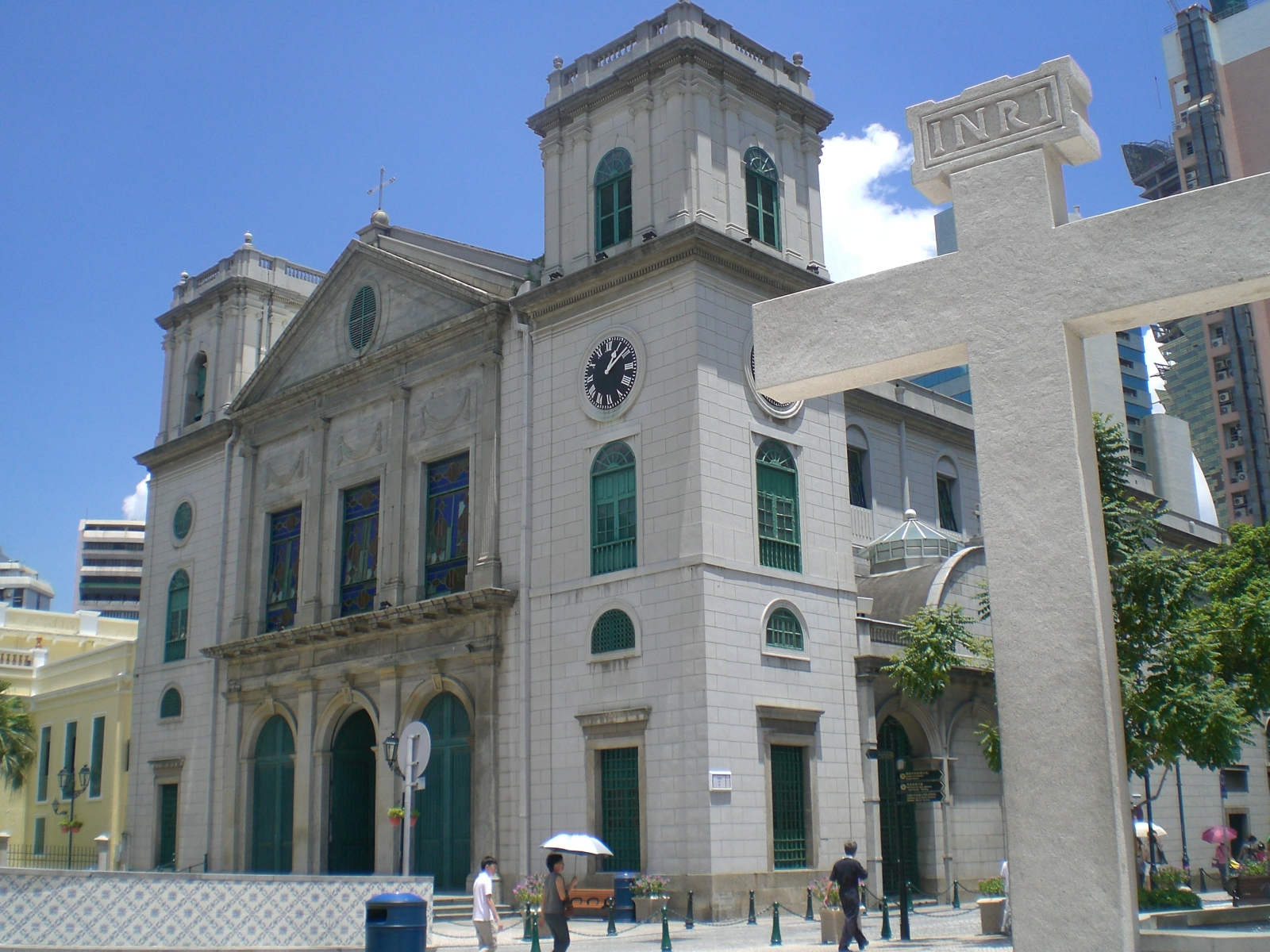 大堂前地 Author= Mo707